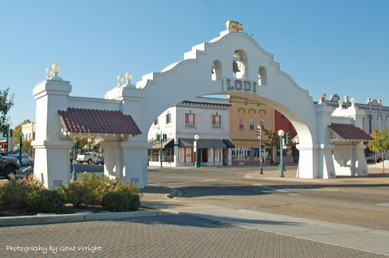 The Lodi Mission Arch, designed by architect E. B. Brown, was built in 1907